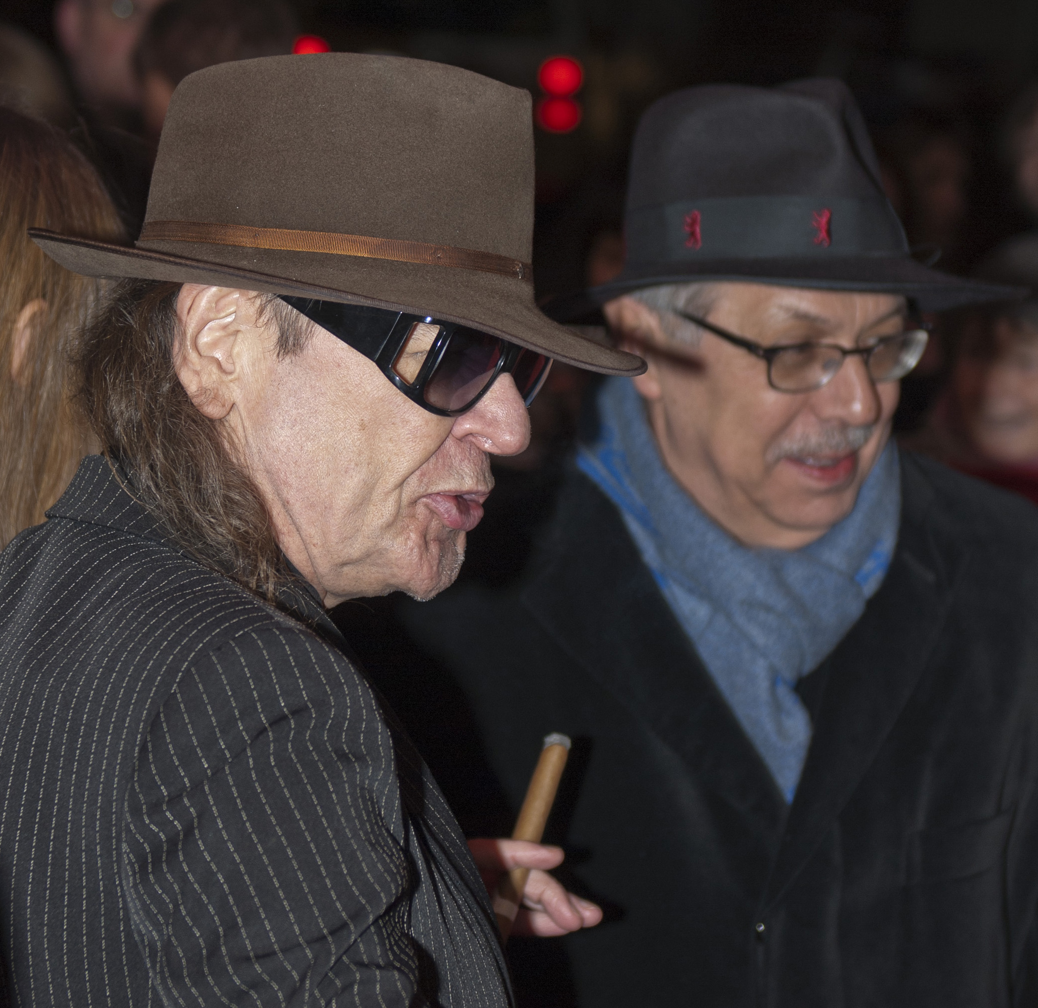 German musician Udo Lindenberg and director of the Berlin International Film Festival Dieter Kosslick at the premiere of the movie "Sing Your Song" at the FriedrichstadtPalast, Berlin, Berlinale 2011